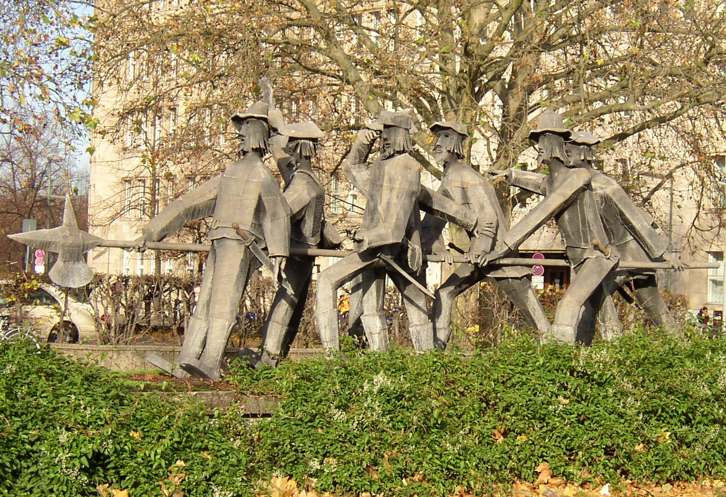 Sculpture by Hans-Georg Damm in Berlin-Wilmersdorf, Germany